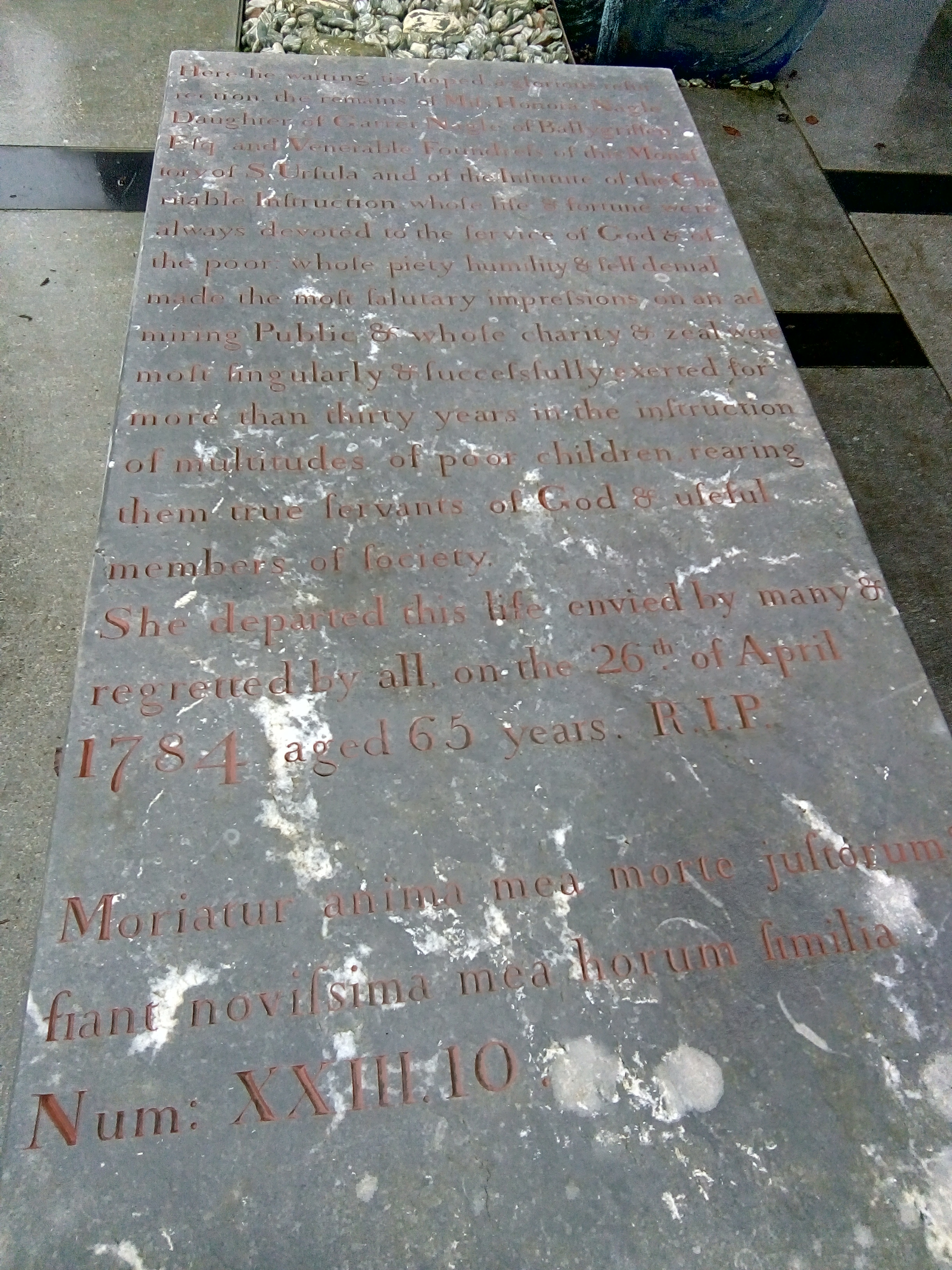 Cork gravestone